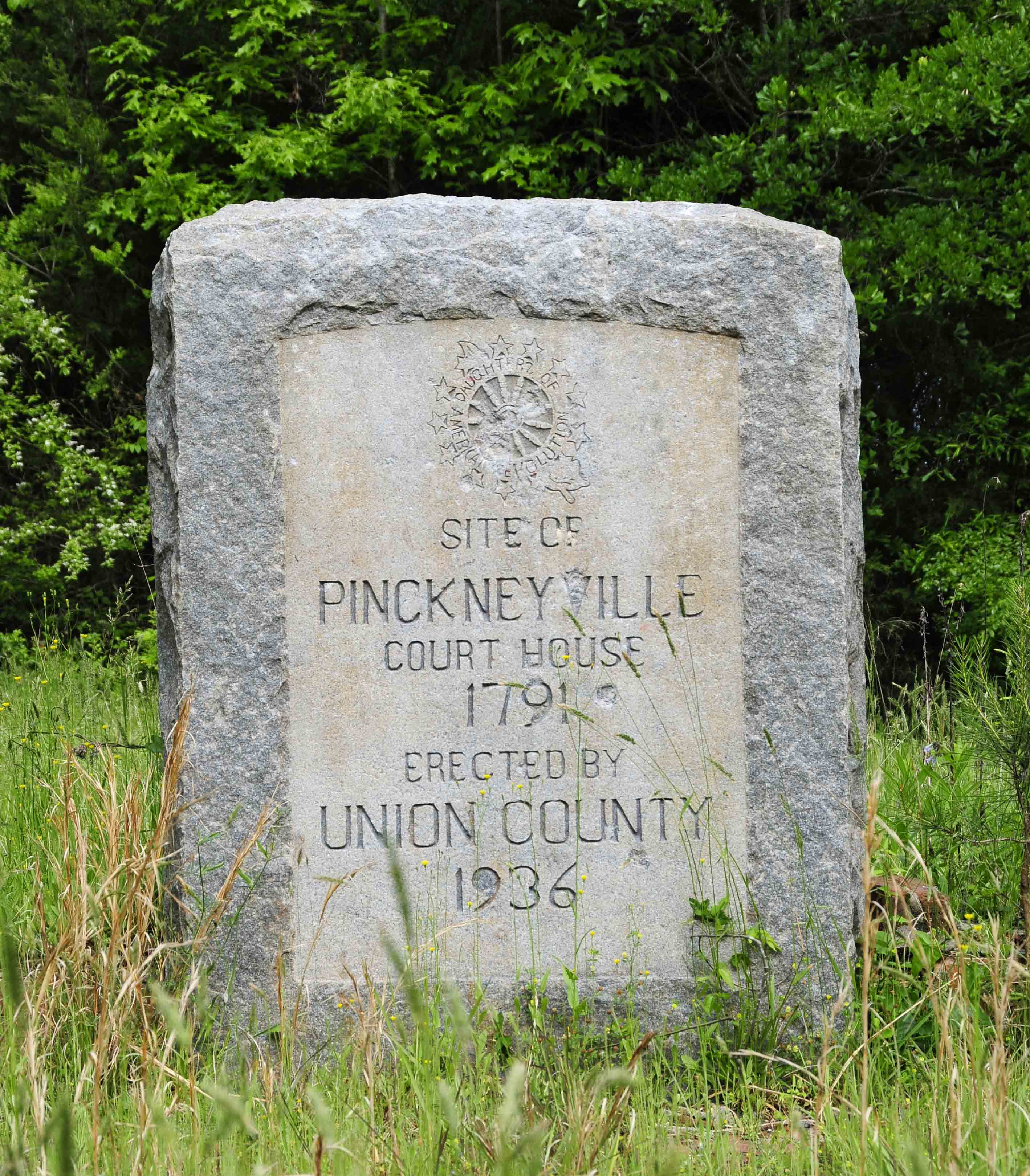 Pinckneyville